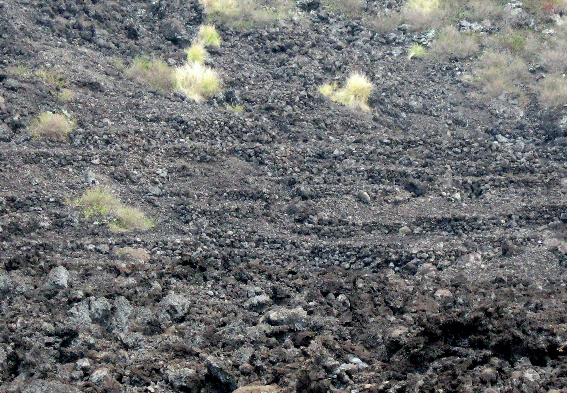 Fallen warriors were buried in these lava rock terraces in 1819.